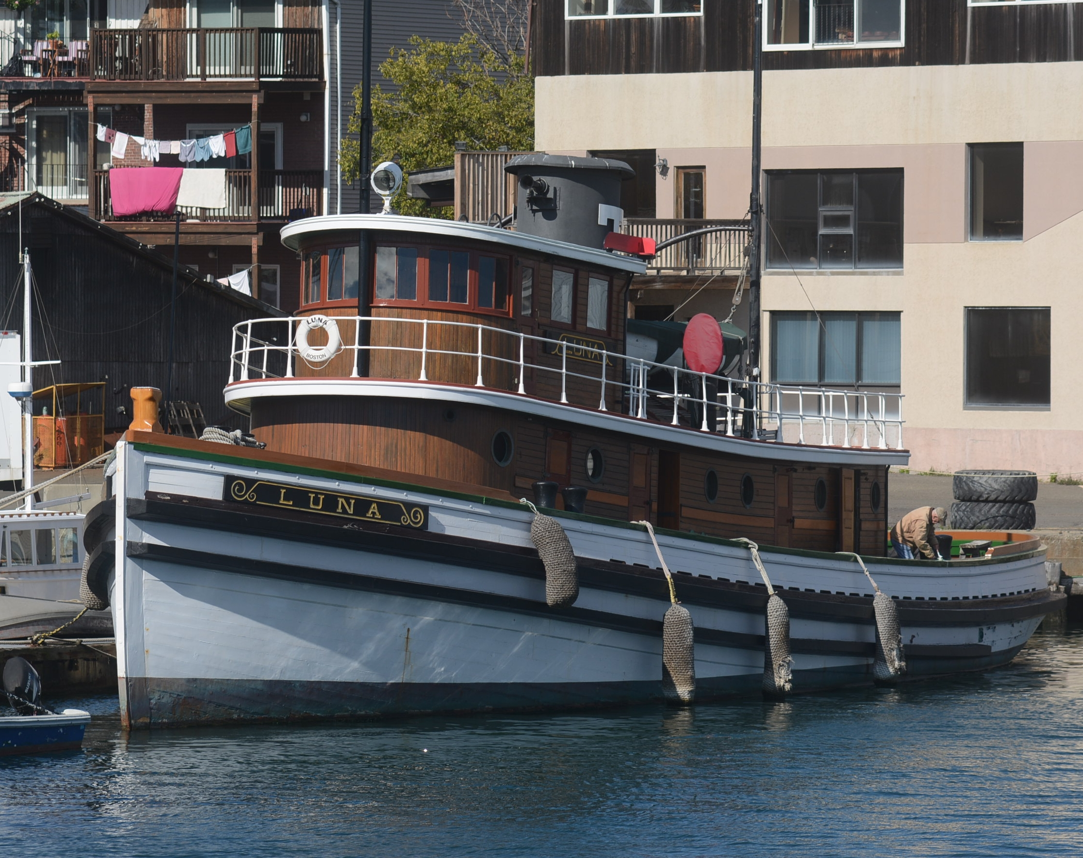 The tugboat Luna in Boston Harbor.